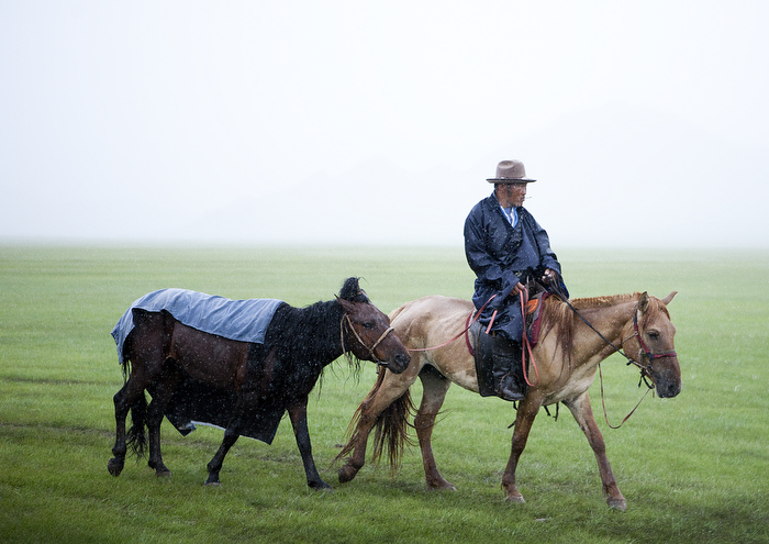 A nomad leads his race horse to the stable during a rain storm.